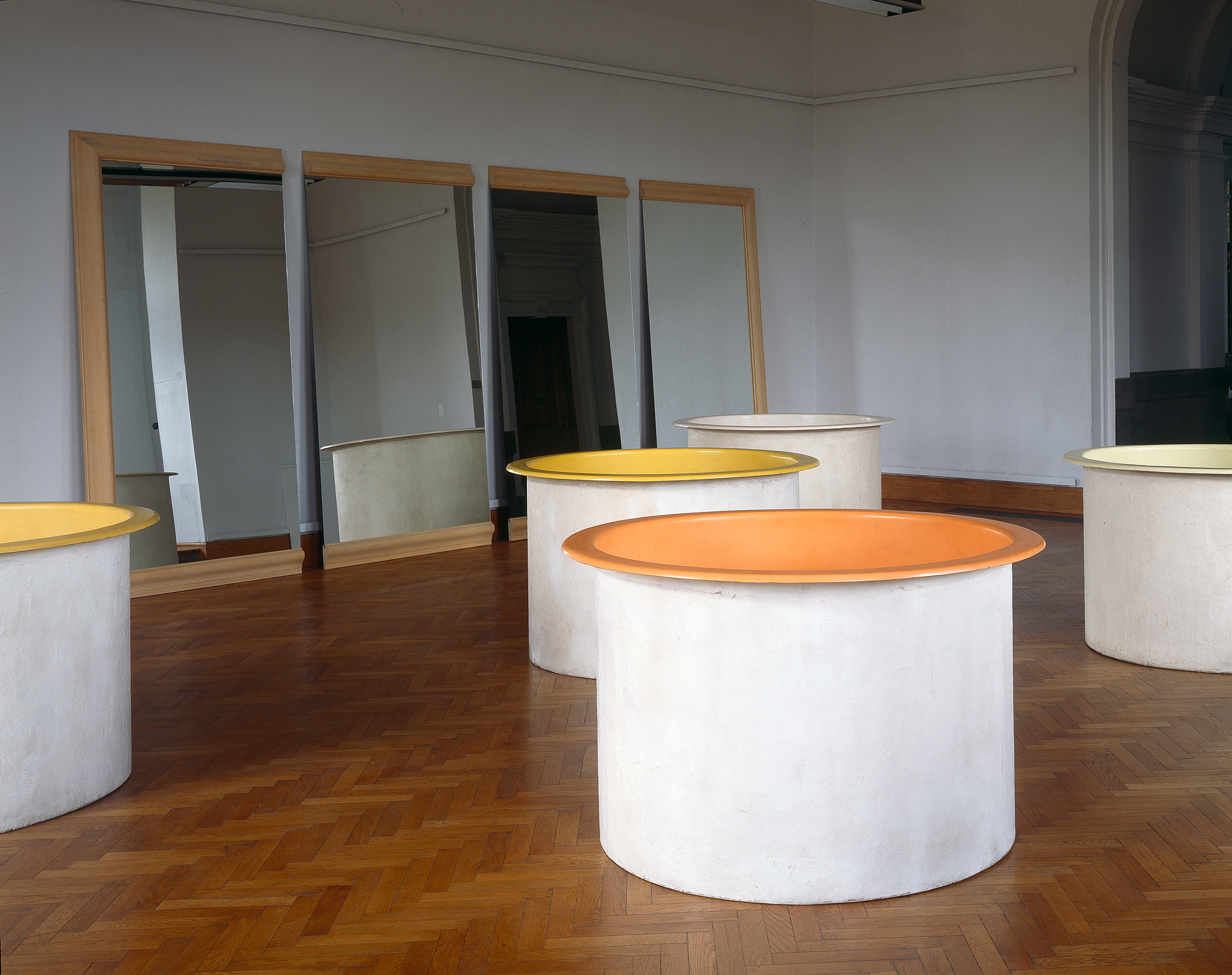 Michelangelo Pistoletto - installation view: The Sublime Void, Royal Museum of Fine Arts, Antwerp (1993)